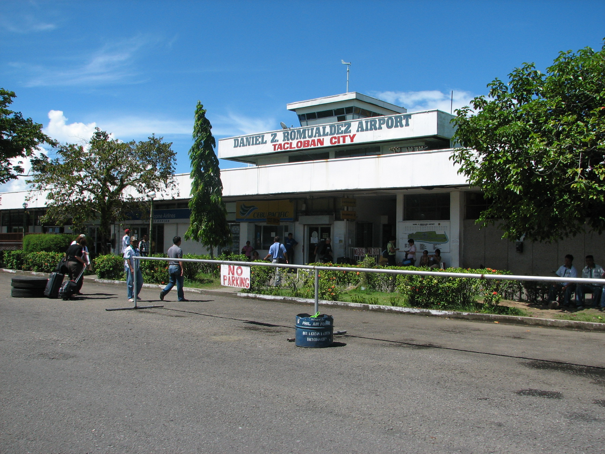 Daniel Z. Romualdez Airport Tacloban city